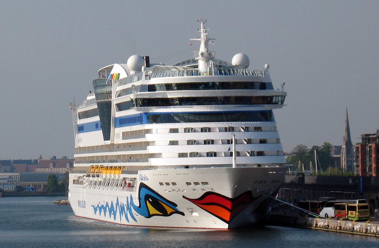 AIDAbella cruise ship in Copenhagen port. IMO Number: 9362542 MMSI Number: 247229700 Callsign: ICGS Length: 252.0 m Beam: 38.0 m